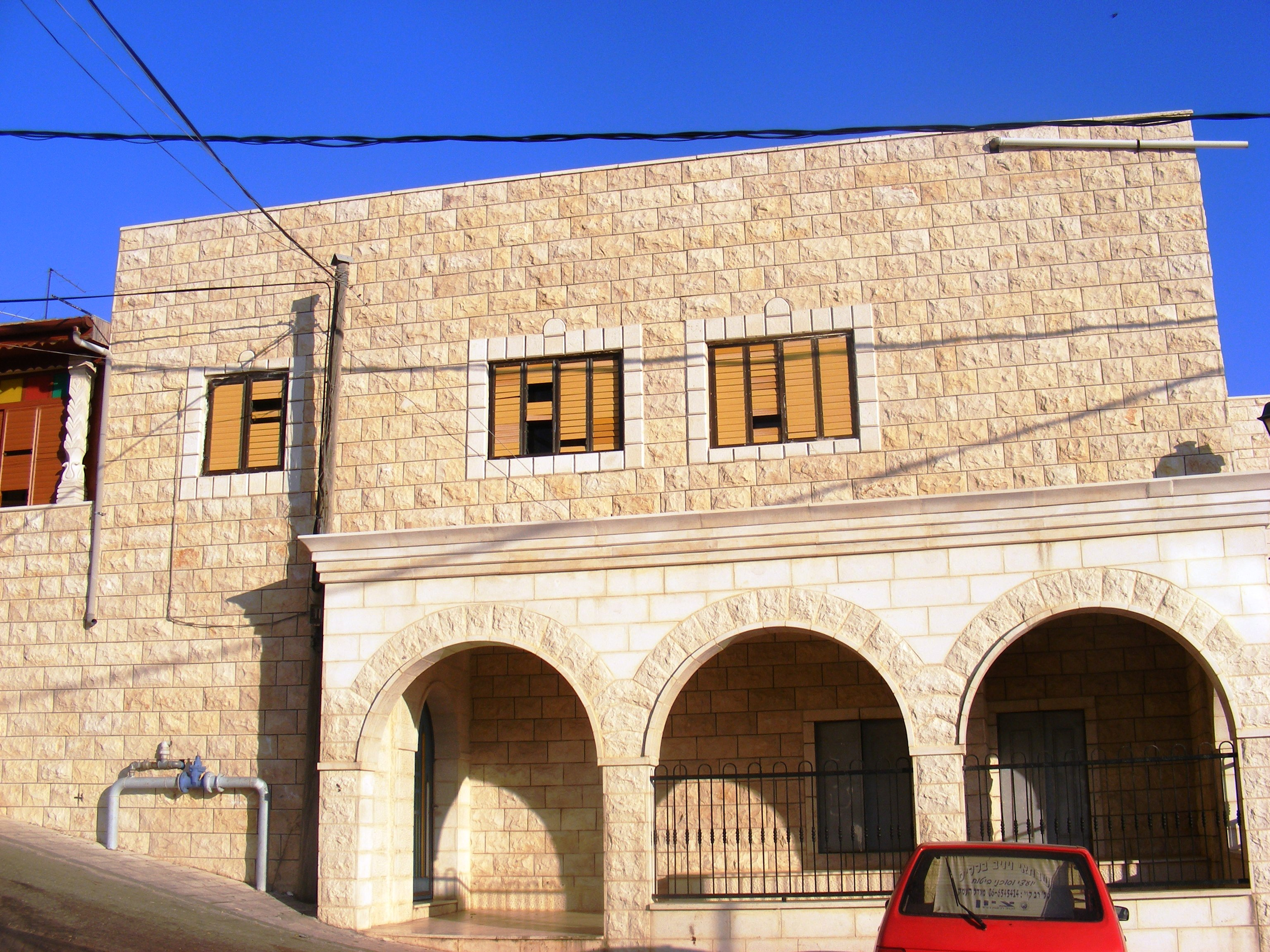 Religion in Israel